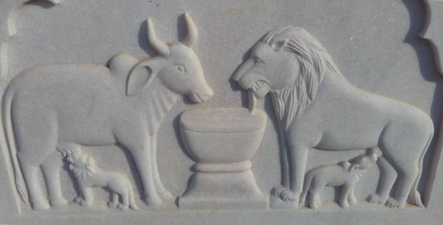 Sculpture depicting the message :"Ahinsa Parmo Dharm" (non-injury is the supreme duty/virtue/religion)